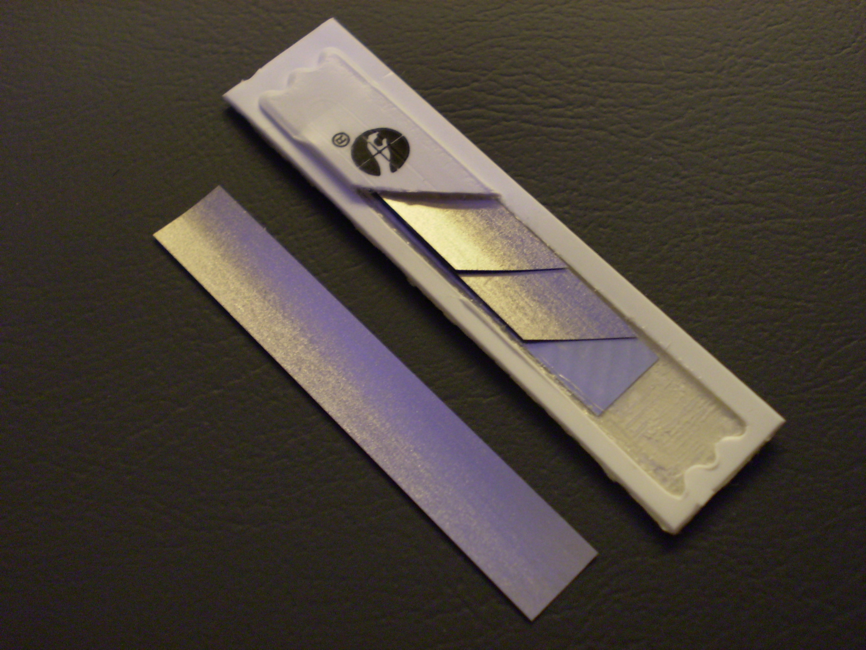 An acousto-magnetic electronic article surveillance tag. Part of the plastic cover and two metal strips have been cut away to show the structure.